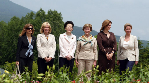 Spouses of G8 leaders pose for photos in Makkari Village, Abuta District, Hokkaidō on July 8, 2008.